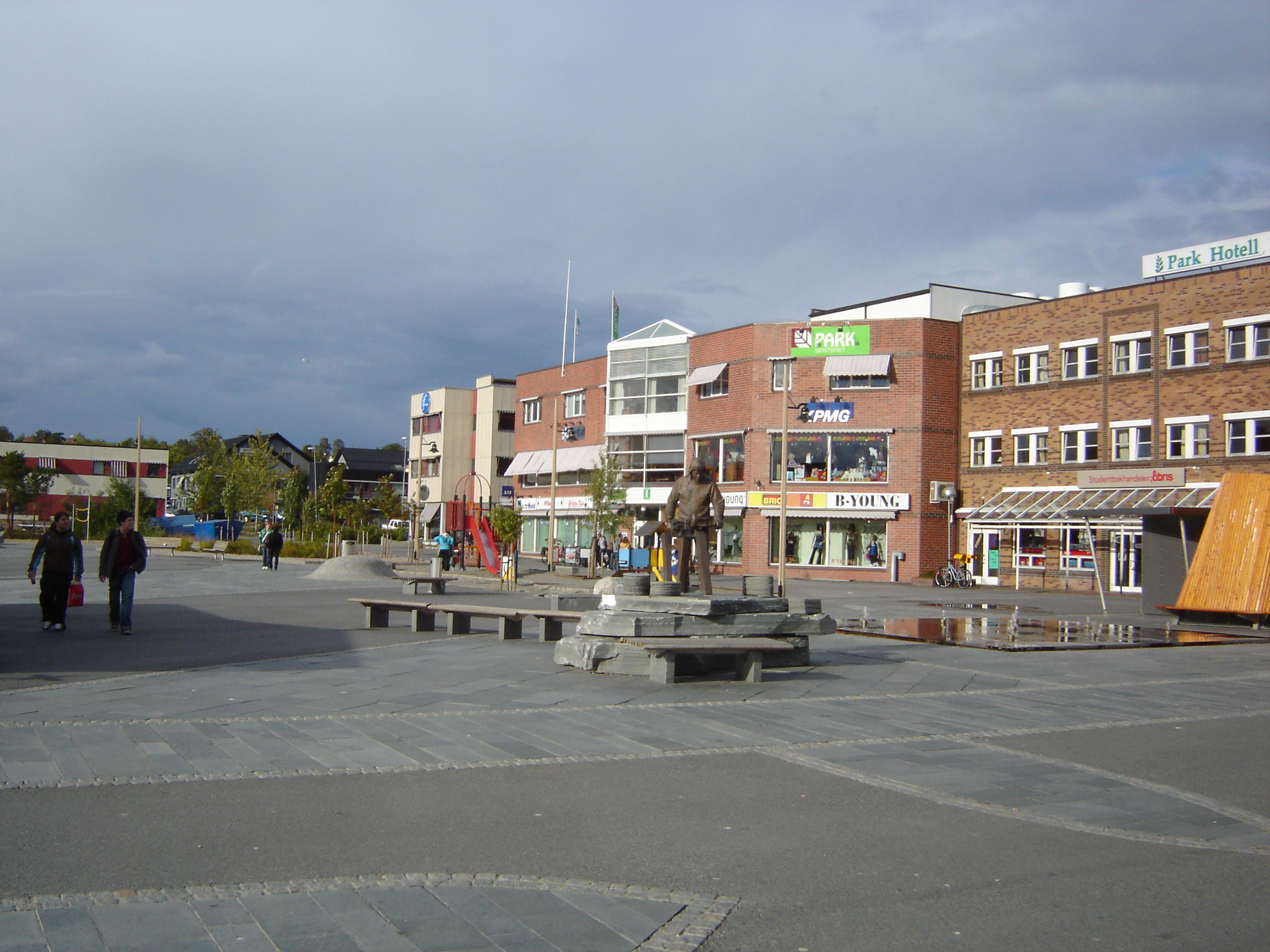 Centre of Alta, Finnmark, Norway